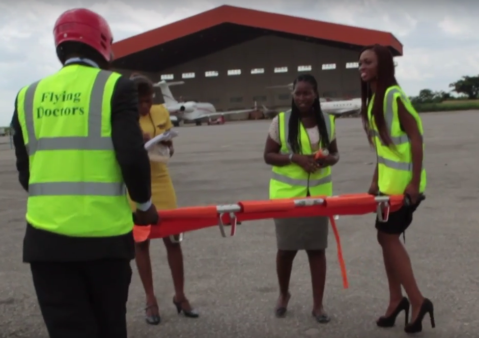 Ola Orekunrin, CEO Flying Doctors on Young CEO see title